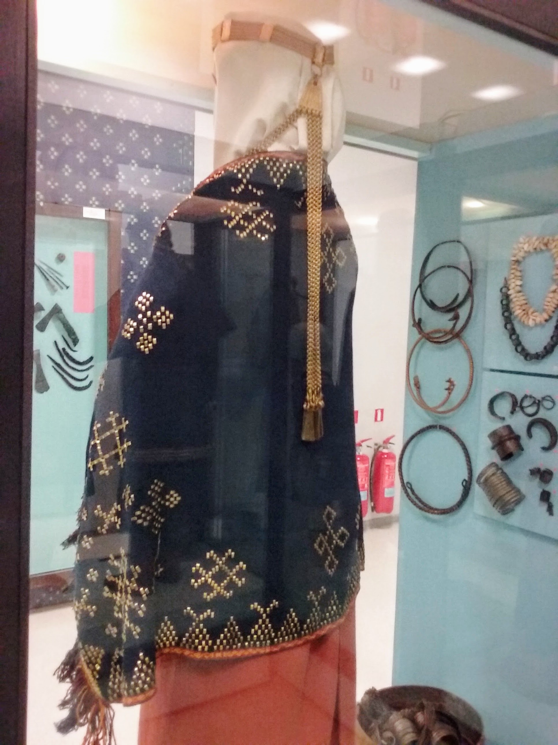 Reconstruction of costume of 12th century Latgalian woman in National history museum of Latvia.